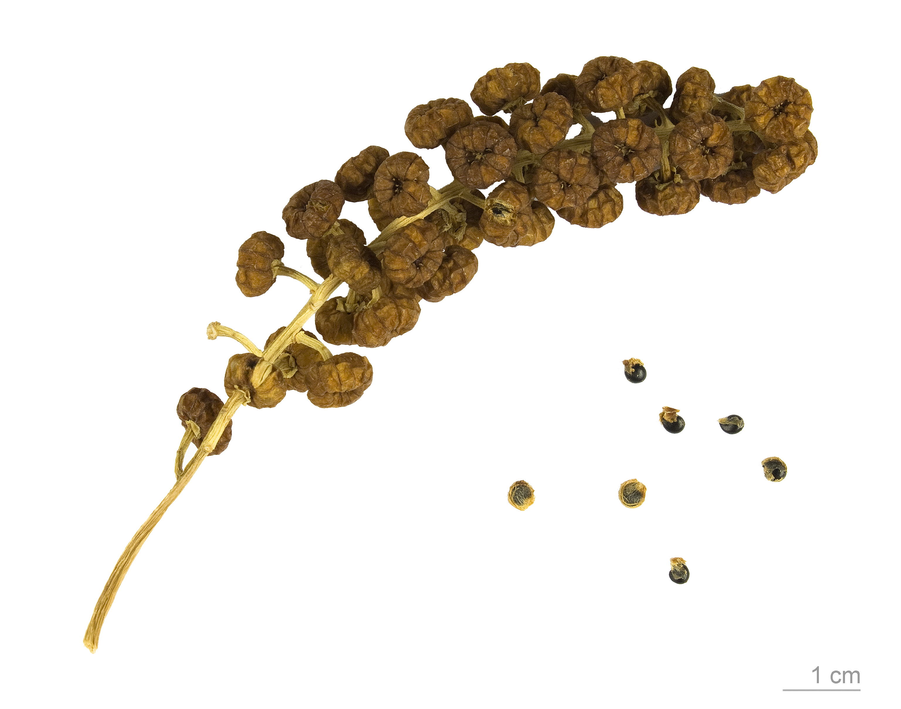 ombú, fruits and seeds